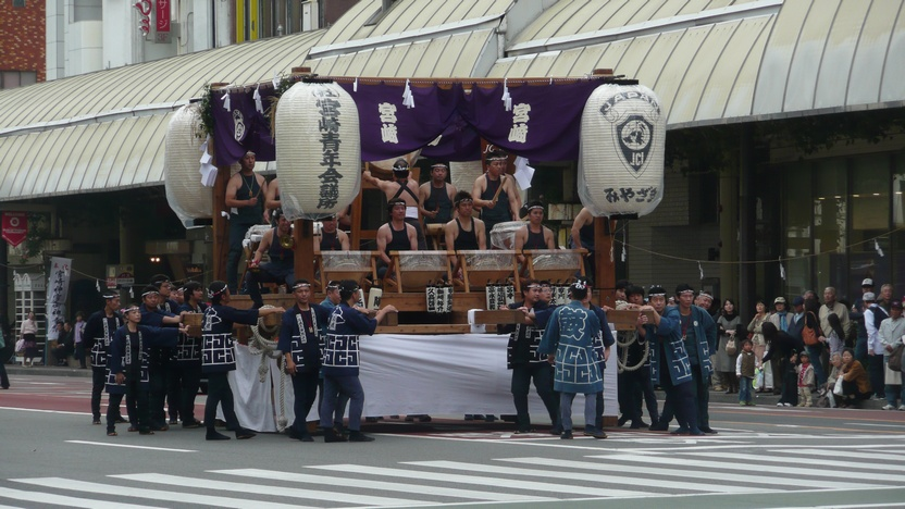 Miyazaki Shrine Grand Festival in 2008 - JC Taiko.